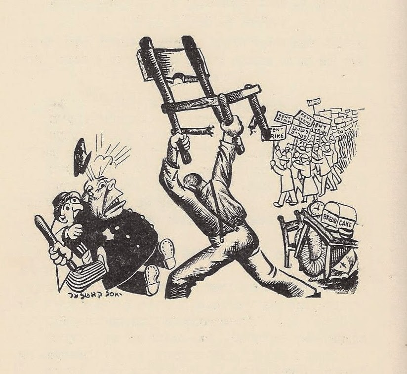 Yosl Cutler, 1936 book illustration, note grotesque police officer